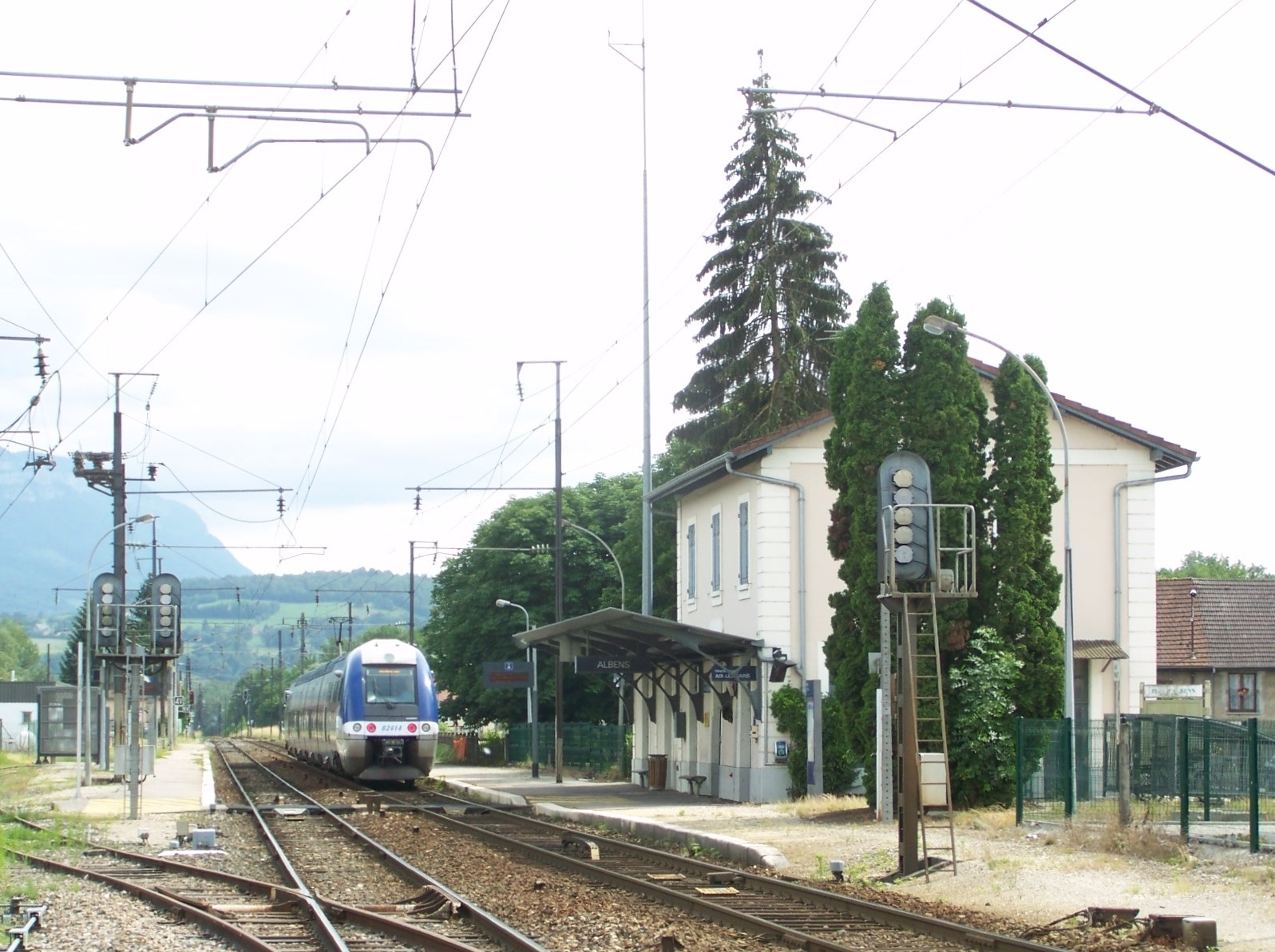 General sight of platforms, tracks and building of city of Albens railway station, in Savoie, France. On track A can be seen stopped a Bi-Bi (Class B 82500) to Chambéry.